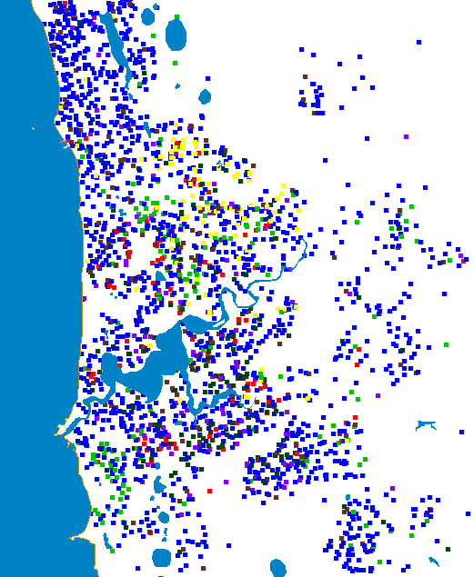 One dot represents 100 persons born in the UK (dark blue), China (red), Italy (light green), Malaysia (dark green), South Africa (brown), Singapore (purple) and Vietnam (yellow), based on 2006 Census